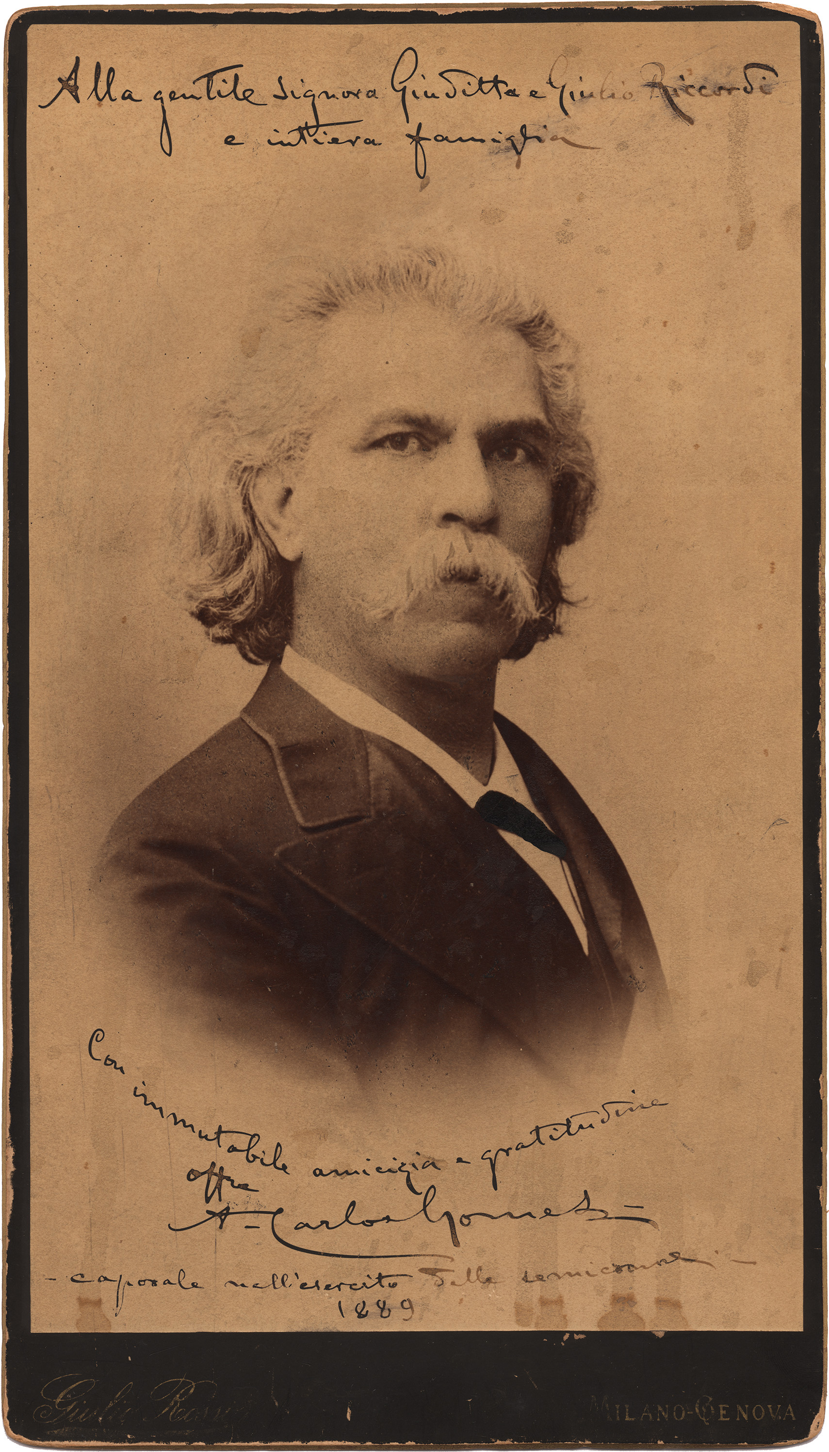 Portrait of Antônio Carlos Gomes, composer (1836-1896). Photo by Giulio Rossi, 1889.